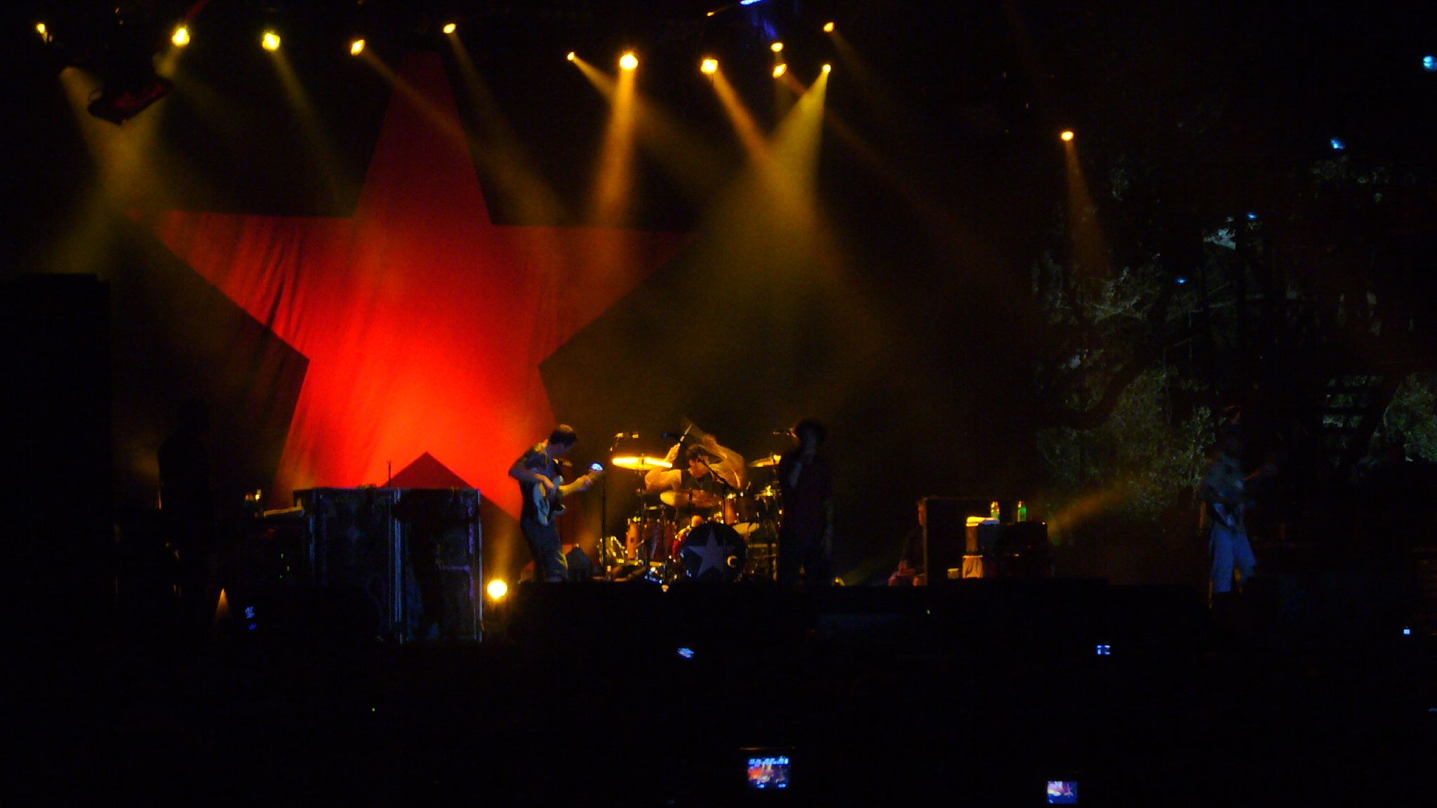 Rage Against The Machine performing at the Voodoo Music Festival in New Orleans, October 26, 2007.P1010424